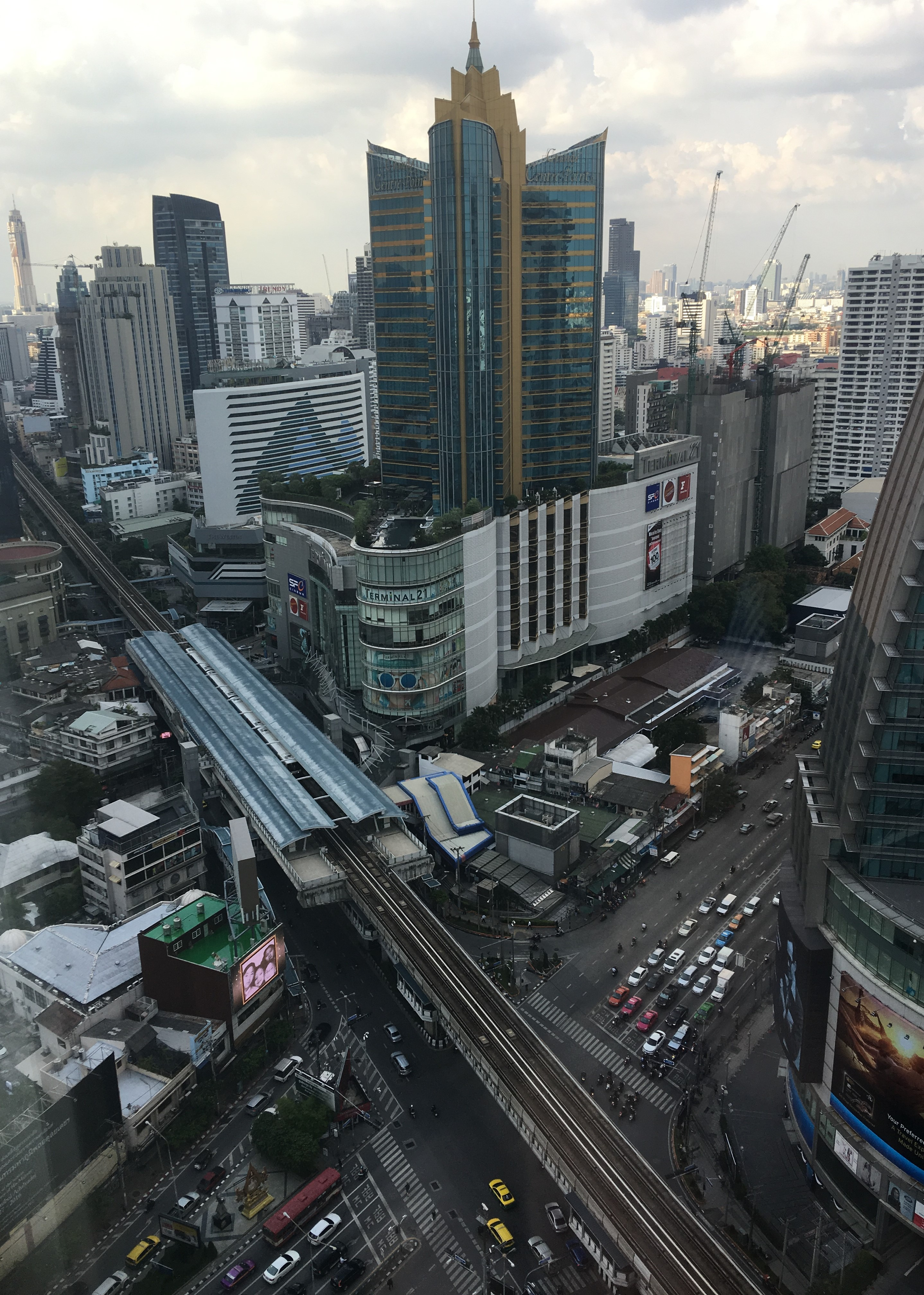 Scenery on the Sukhumvit Road, Bangkok